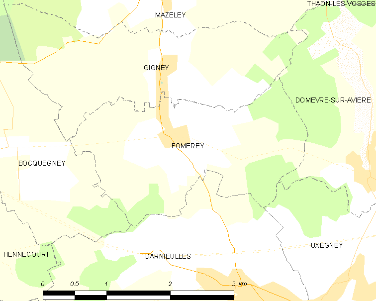 Map of French municipality Fomerey